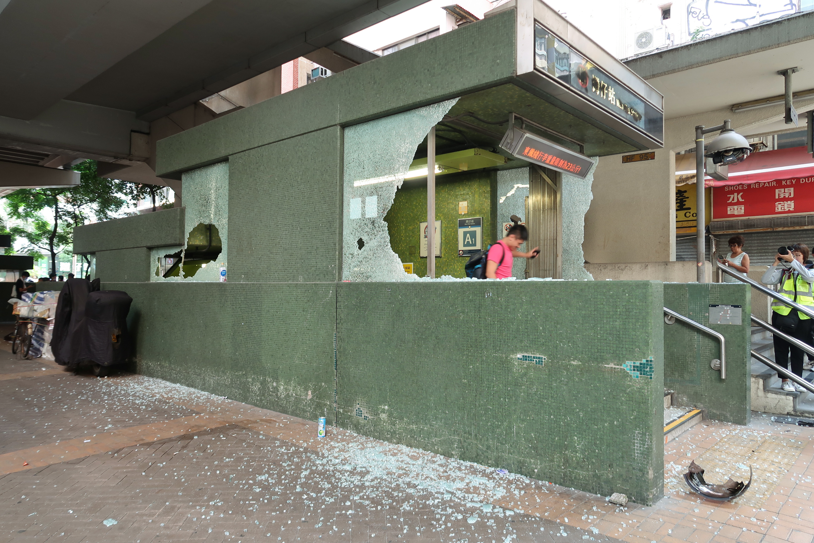 Wan Chai Station Exit A1 Damage